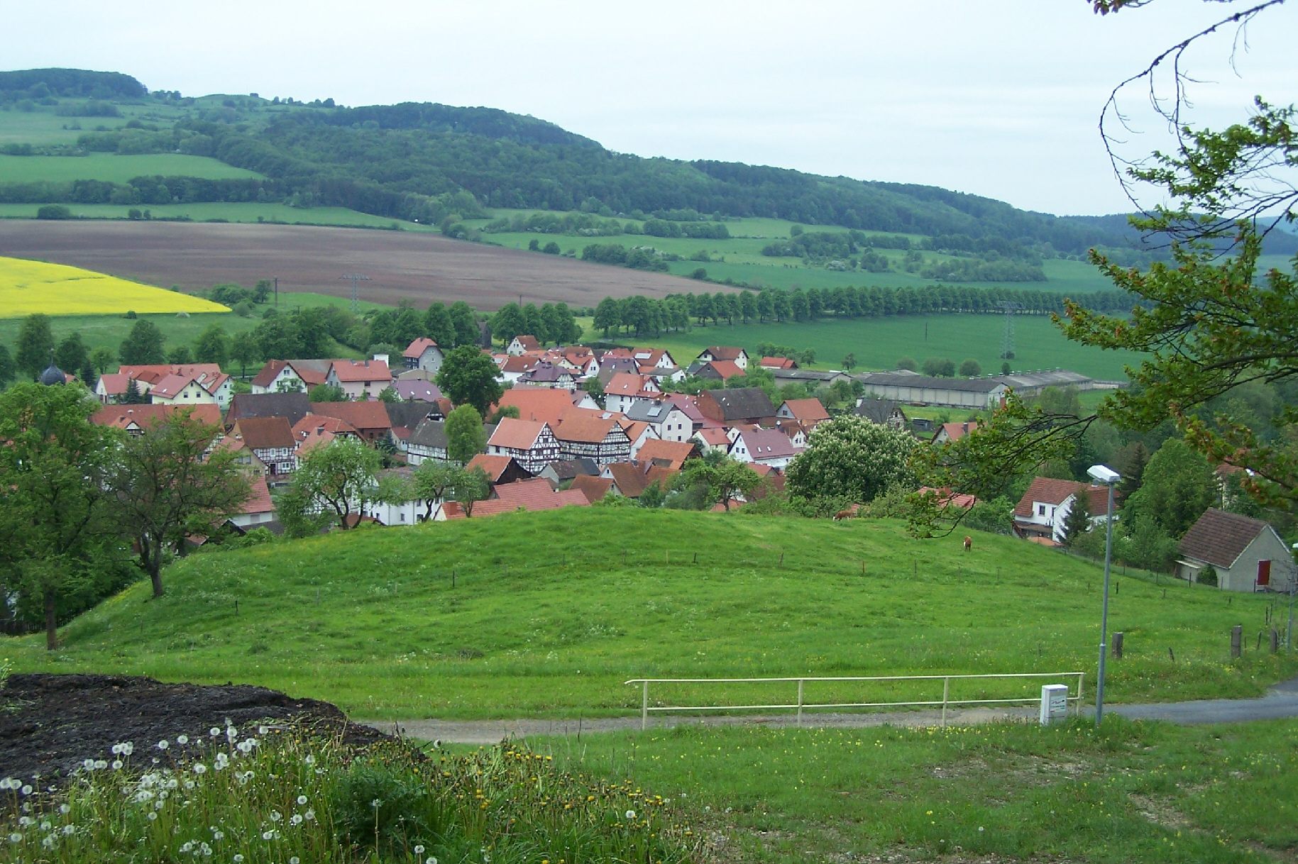 Neidhartshausen village.